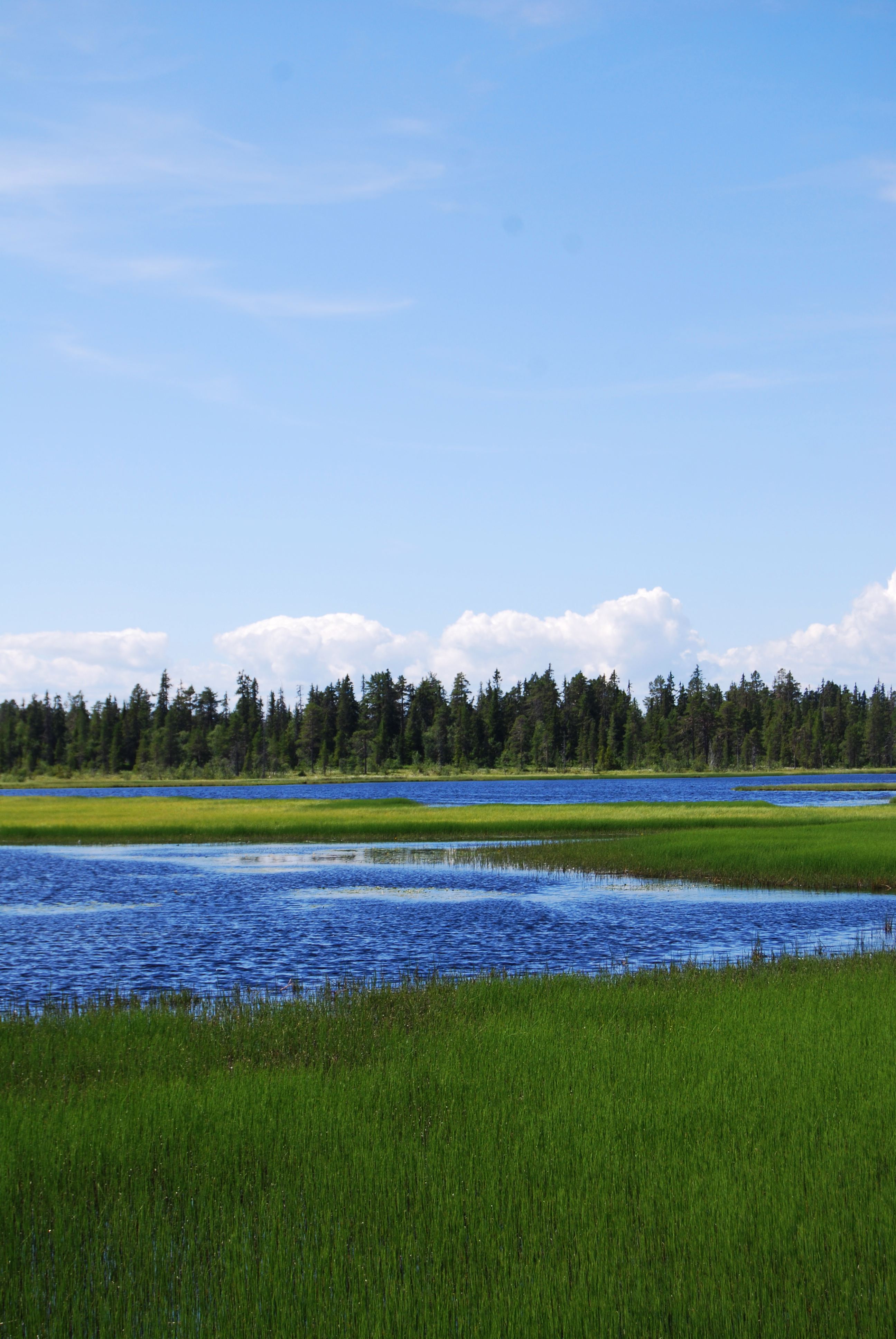 Kveådammen, a pond in northern Hamar.